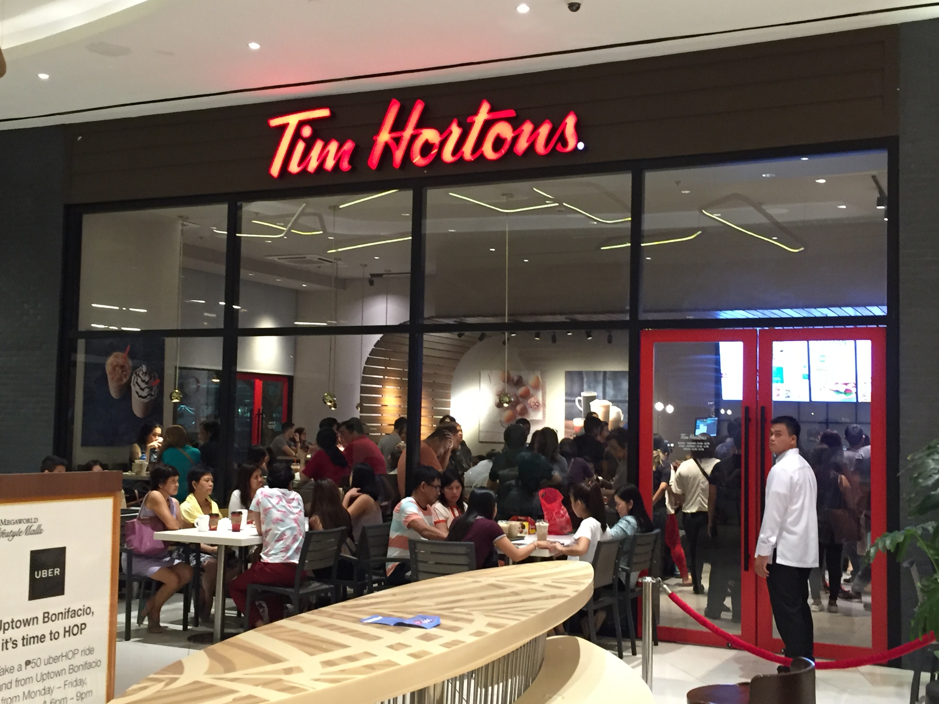 The entrance of Tim Hortons in Uptown Mall, which is the first branch to be established in the Philippines